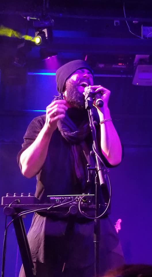 Mikky Ekko during an April 2018 performance in St. Paul, Minnesota.